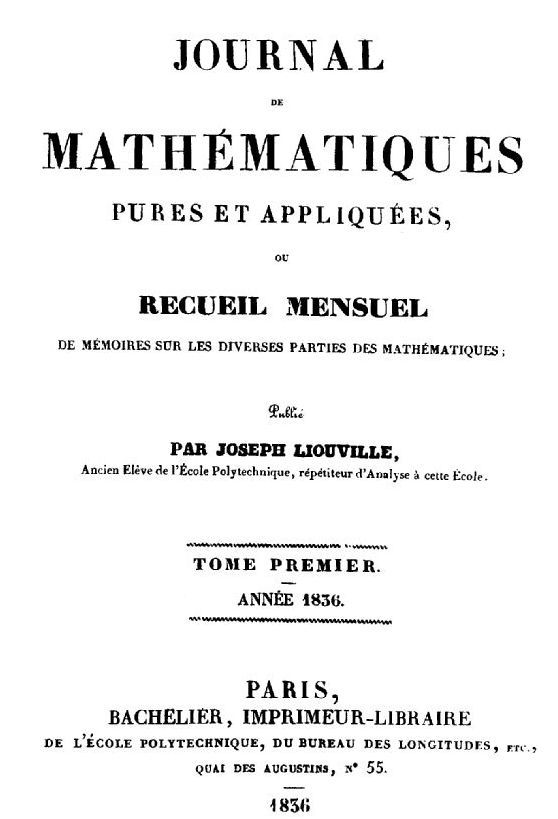 Title page of the first volume of Journal de Mathématiques Pures et Appliquées, founded and edited by Joseph Liouville in 1836